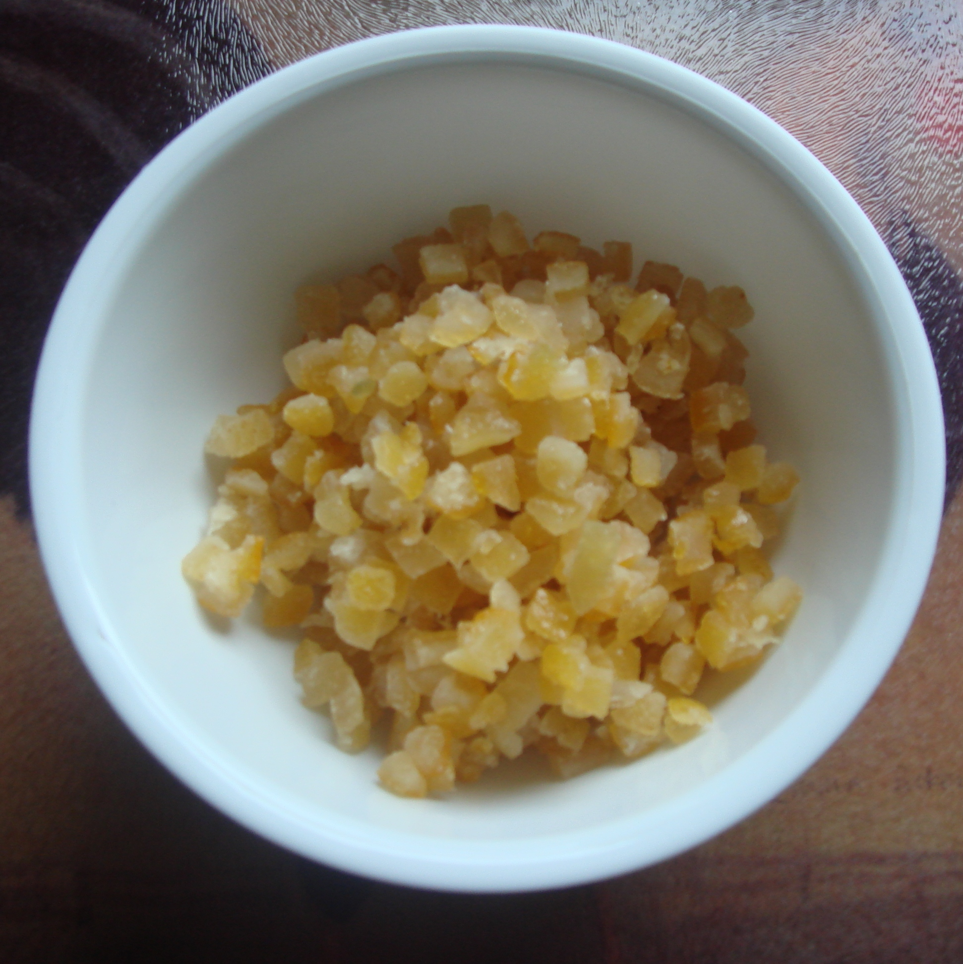 Candied mixed peel